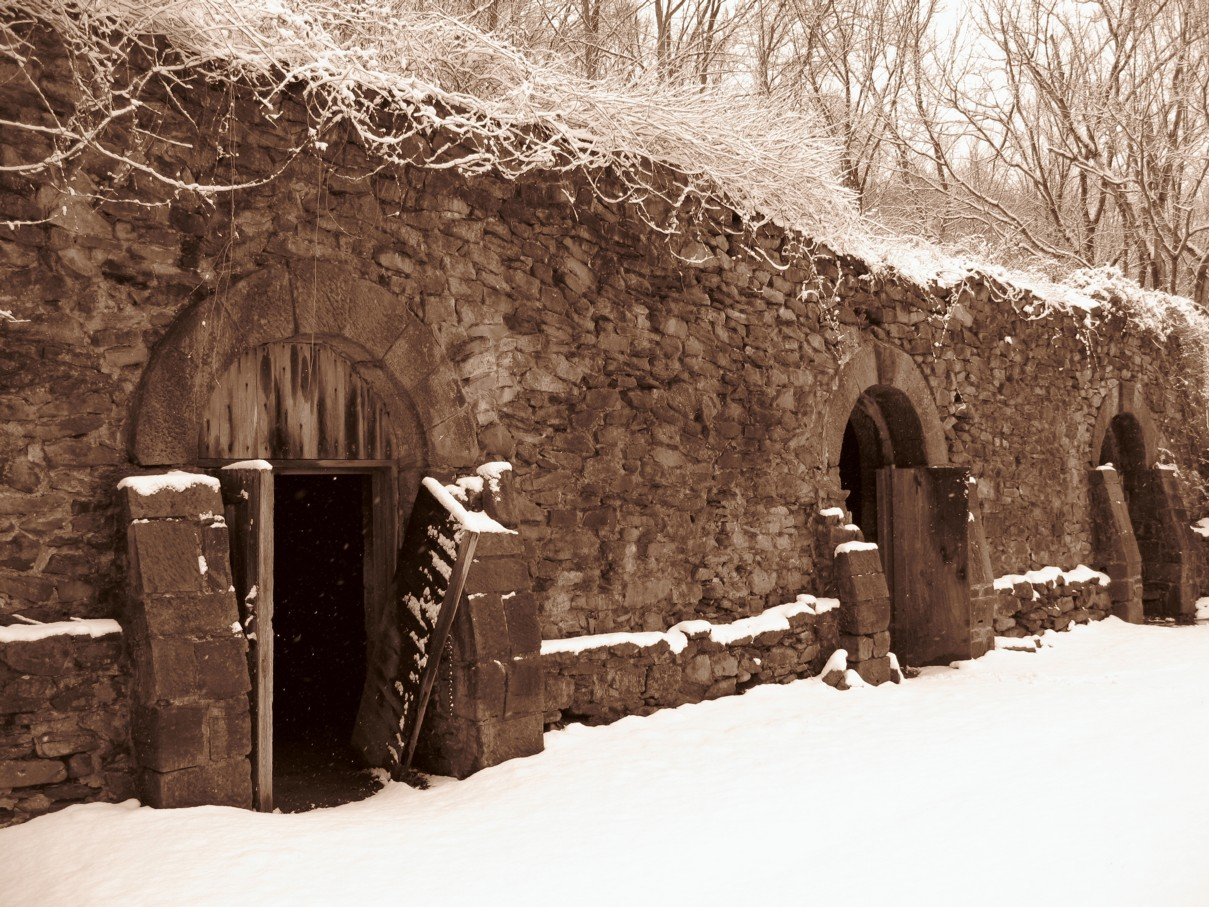 1800 Wine Cellar Winter Sepia; Dunbar Wine Cellar Park?, West Virginia; Dutch Hollow Wine Cellars